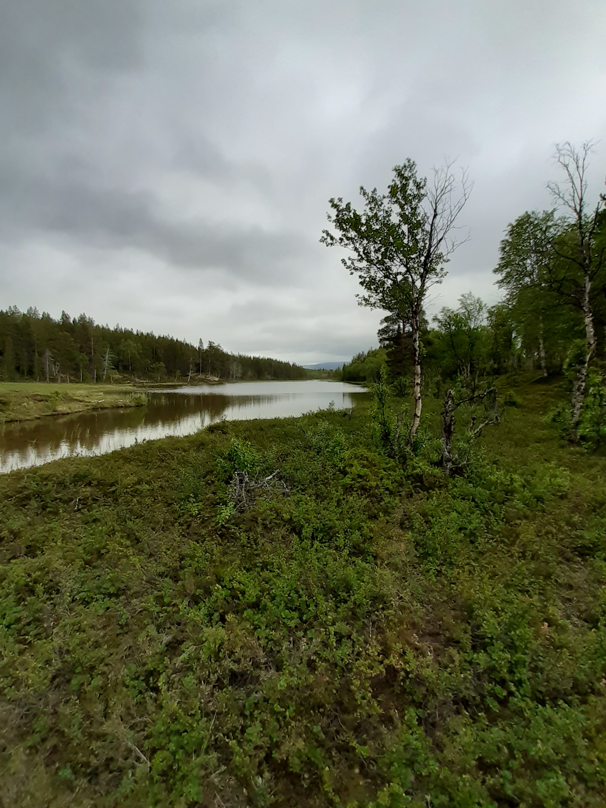 Matskålstjärnen from the west 2019.